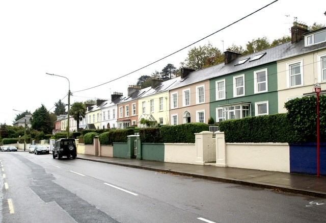 The main road in Passage West, County Cork, Ireland